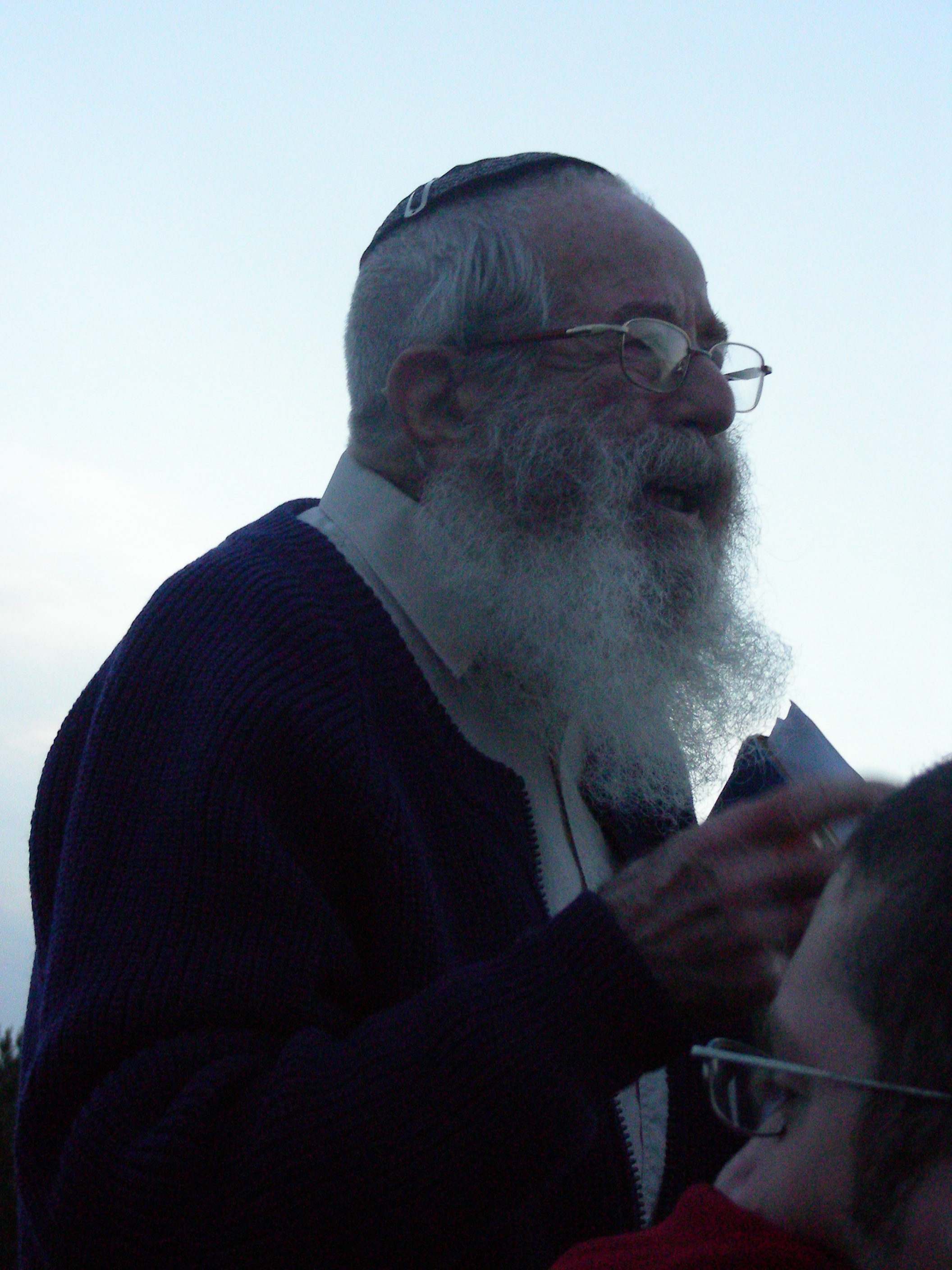 Israel Ben Shalom